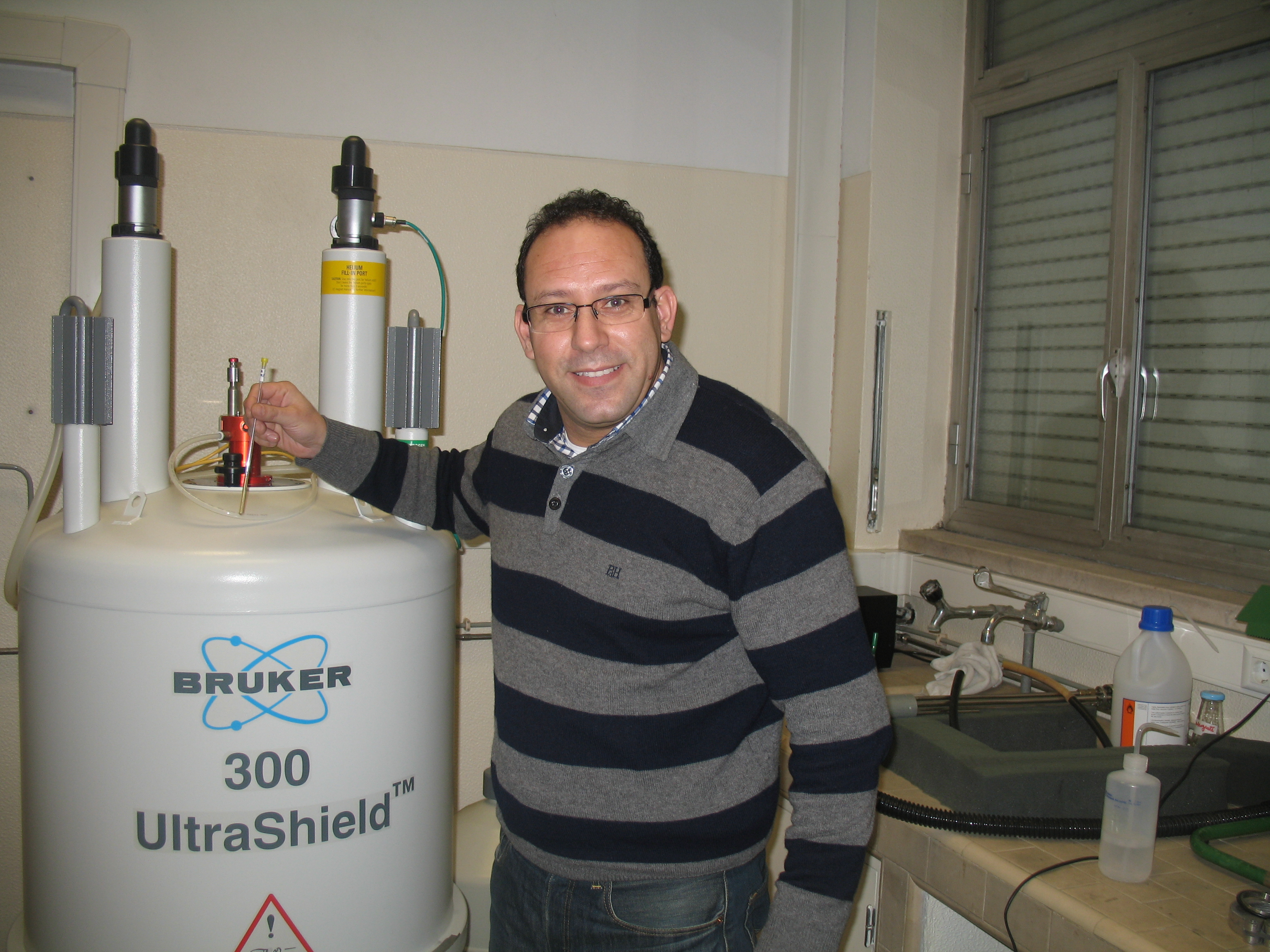 NMR spectrometer 300MHz; 2 chanels; 5mm probe; Bruker AVANCE III